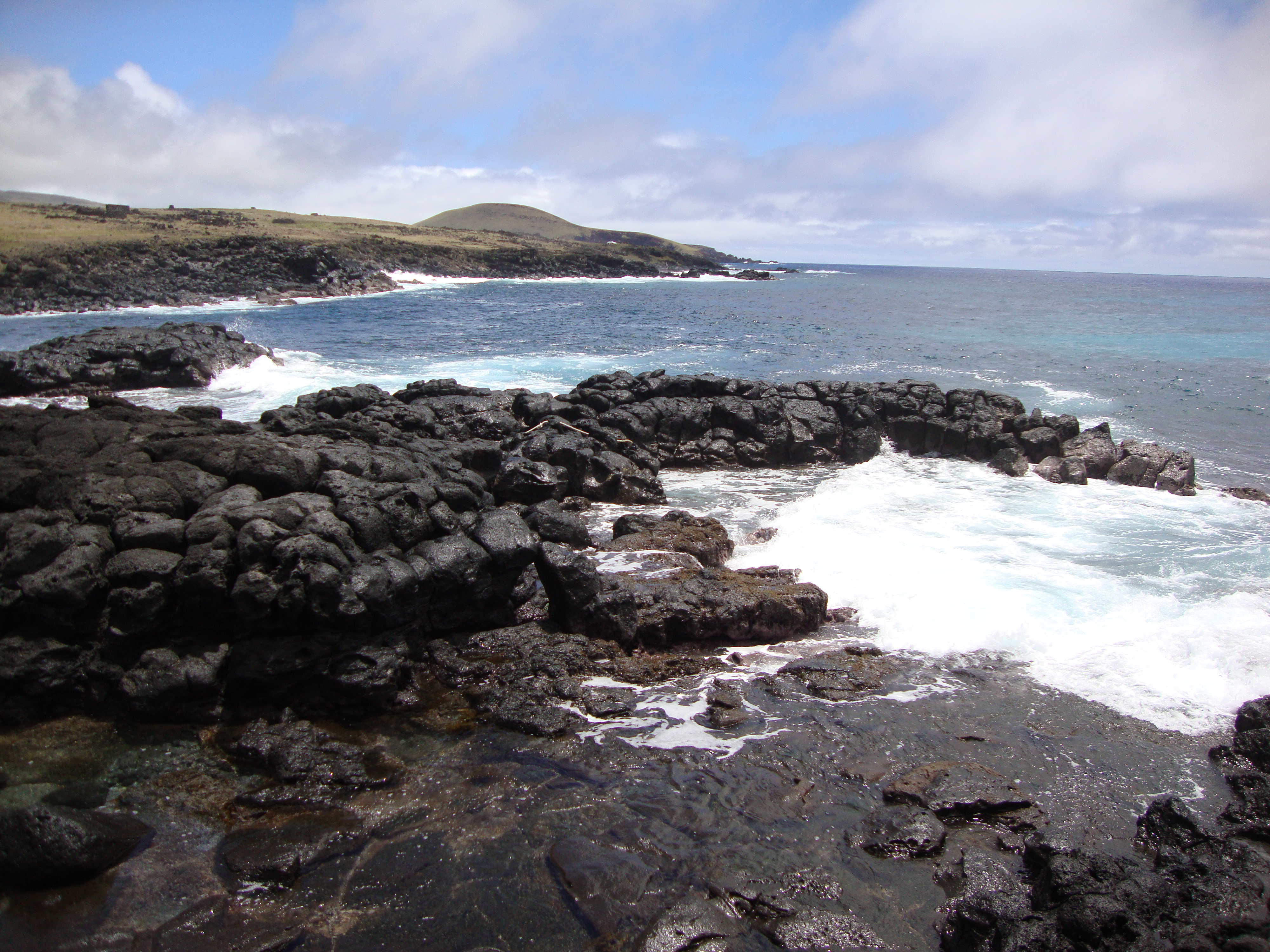 Northern shoreline of Easter Island, looking northwest from Ahu Te Pito Kura towards Ovahe and Anakena.